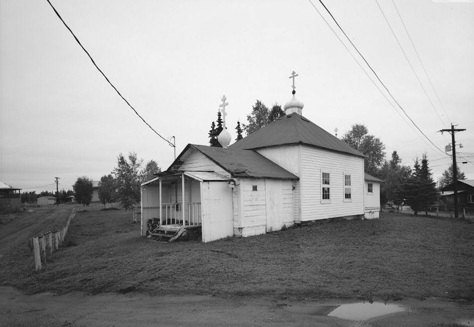 Front of the Presentation of Our Lord Chapel, a Russian Orthodox church in Nikolai, a community in the Yukon-Koyukuk Census Area of the U.S. state of Alaska. Built in 1929, the church is listed on the National Register of Historic Places.